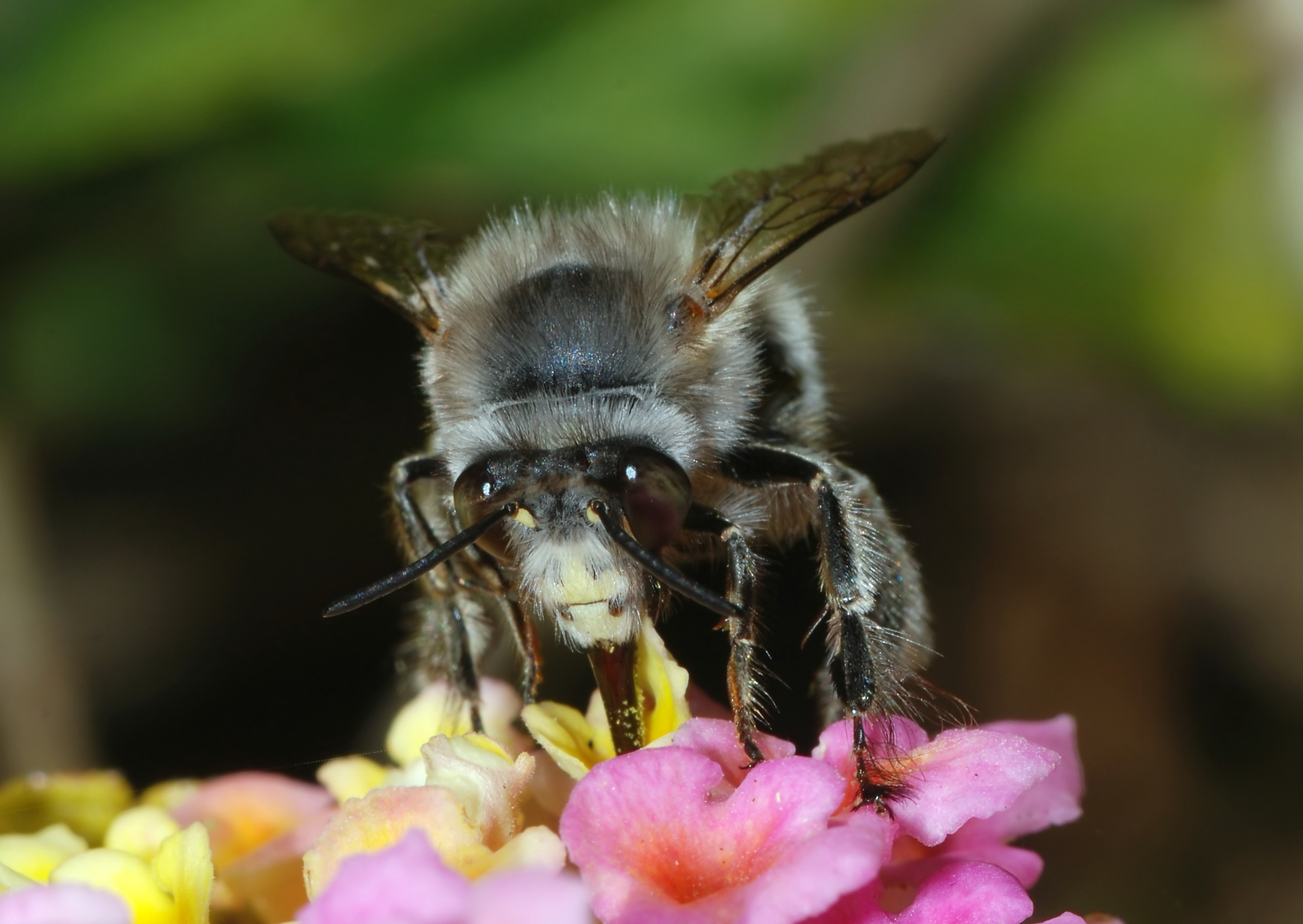 A solitary bee (Anthophora plumipes) collecting nectar in Lisboa. Camera: Nikon D80 with Tokina AF 100 macro and 35mm extension ring. Exposure: manual, 1/100, F/16, ISO 100.